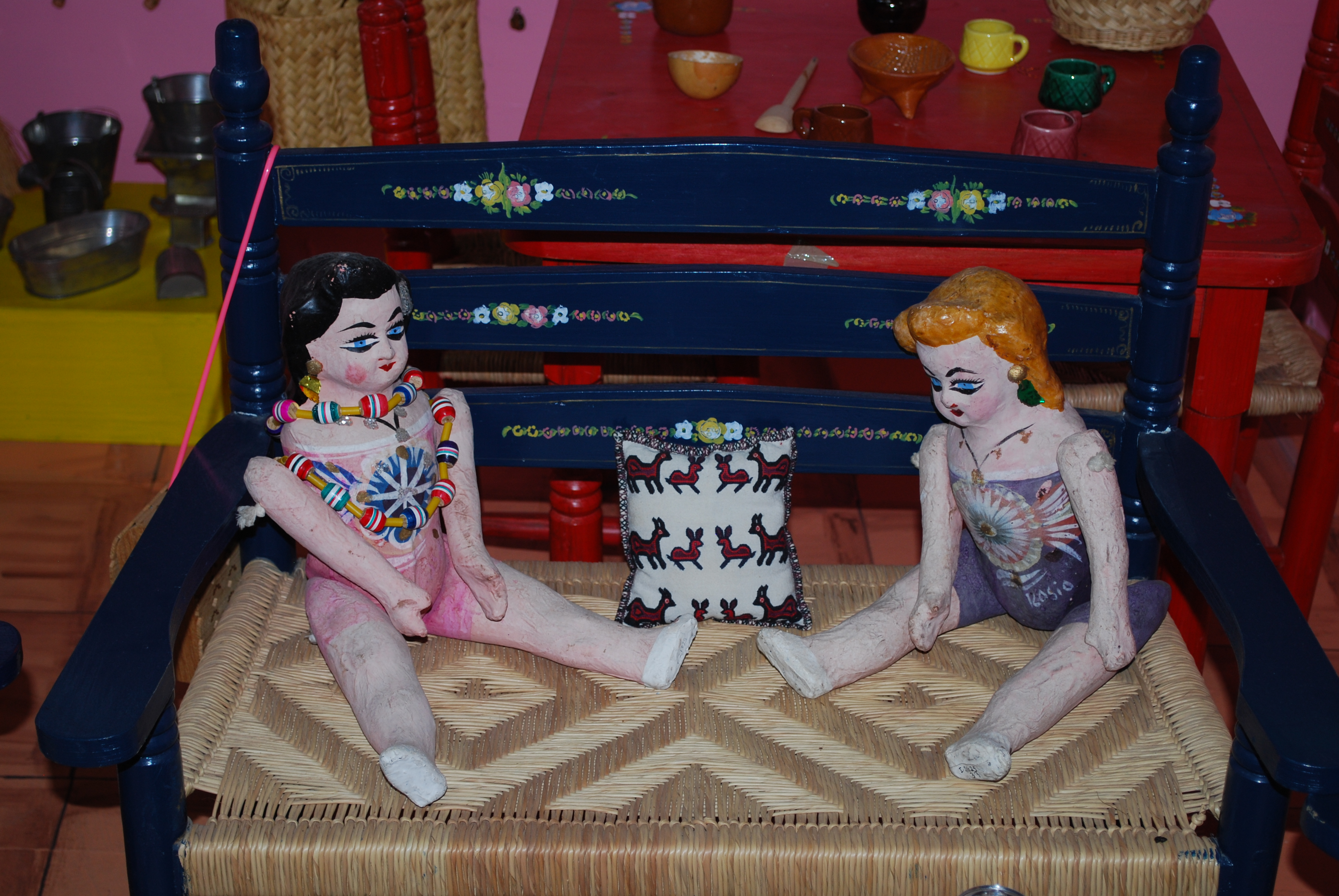 Cartoneria dolls on a bench at the toy room of the Museo de Culturas Populares at the Centro Cultural Mexiquense in Toluca